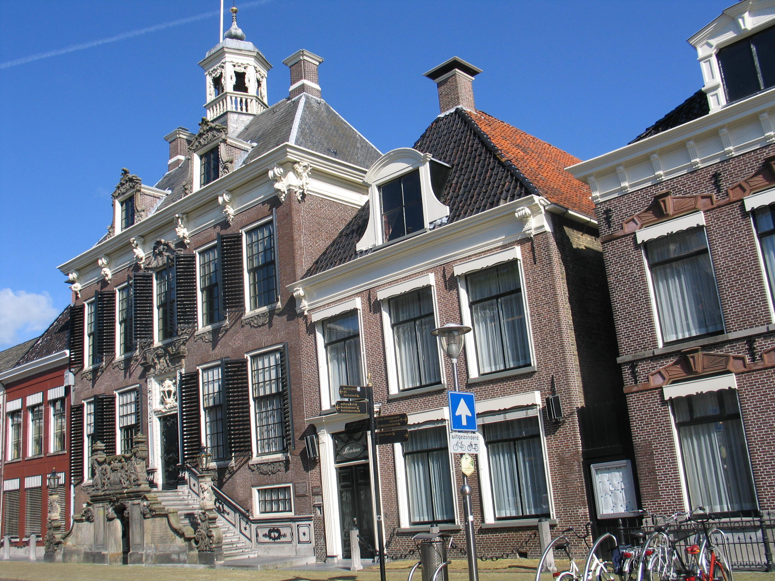 Townhall (18th century) in Rococo style